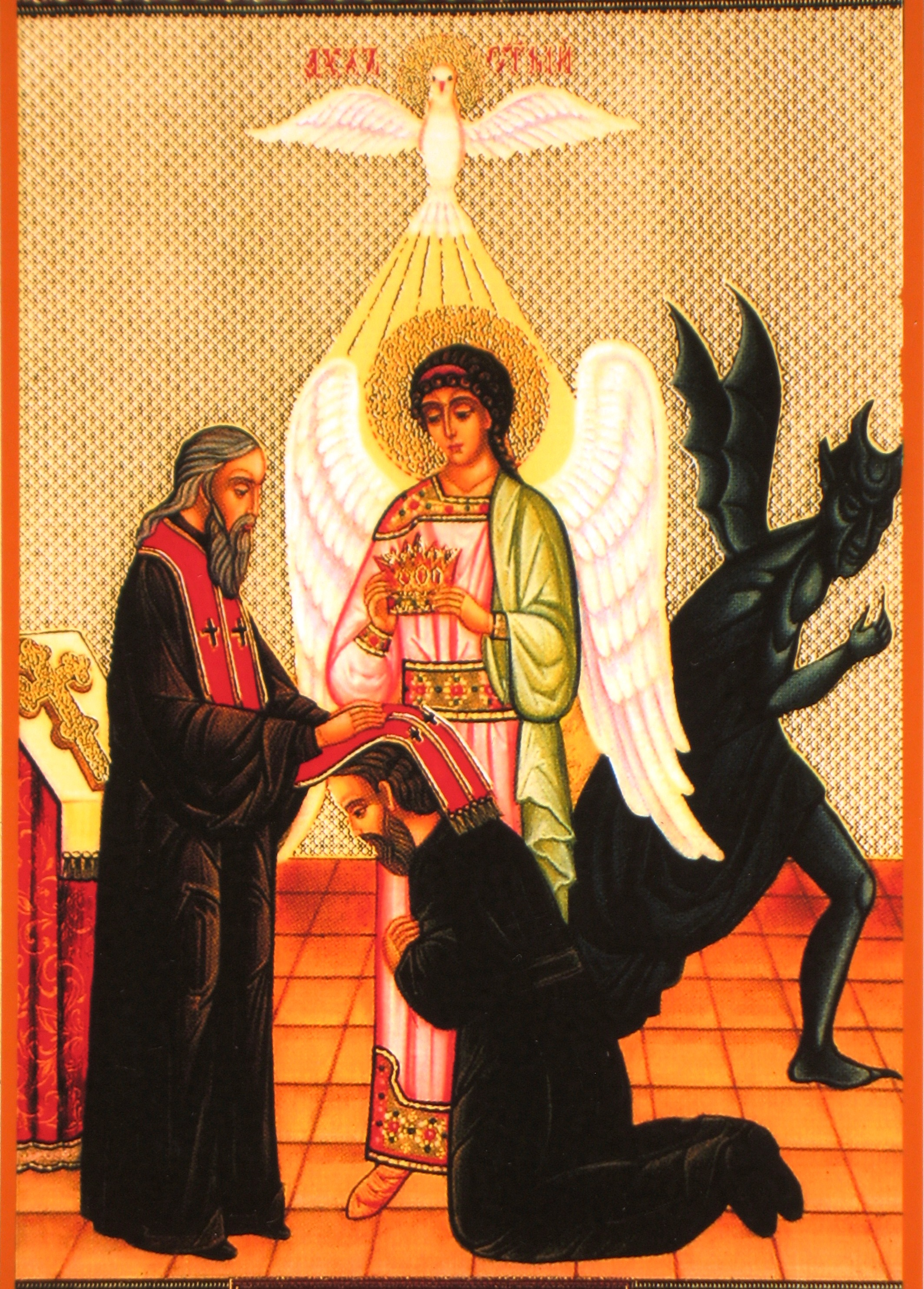 Russian Orthodox penance. Russian icon.